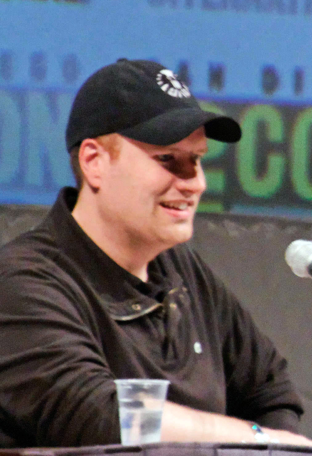 Kevin Feige on Captain America: The First Avenger panel from the 2010 San Deigo Comic-Con International.